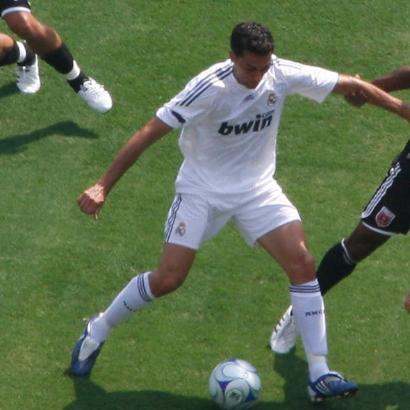 Álvaro Arbeloa with Real Madrid C.F. vs DC United at FedEx Field